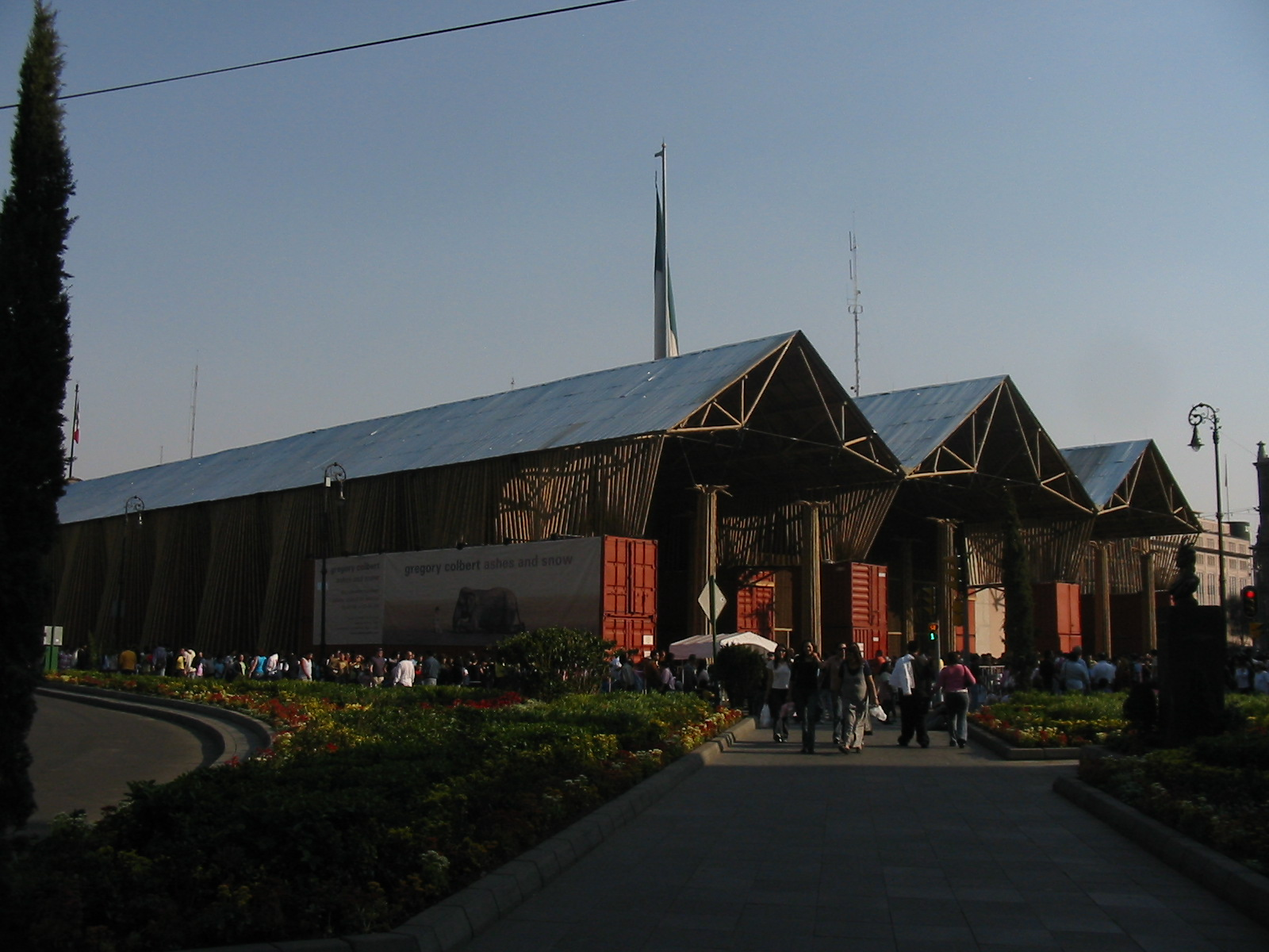 Gregory Colbert's "Ashes and Snow" exhibition in Mexico City